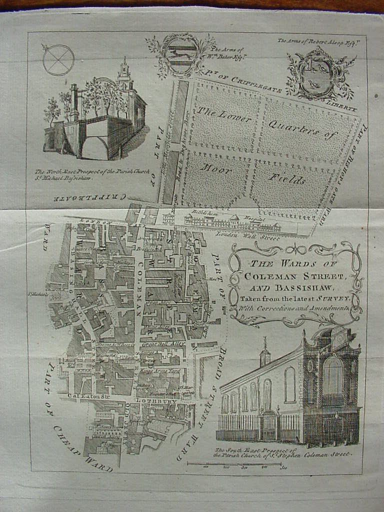 Coleman Street and Bassinshaw Wards. 1754 Benjamin Cole source